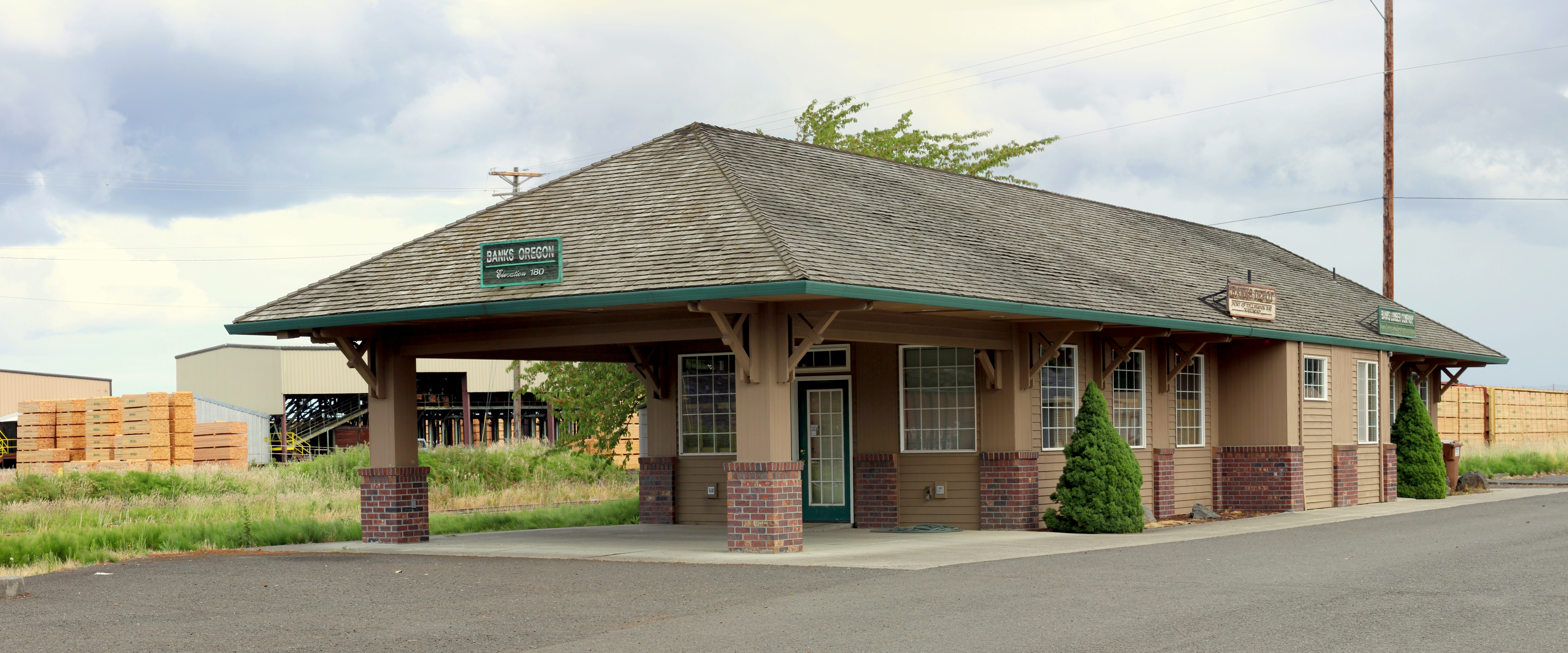 Unknown railway depot in Banks, Oregon.